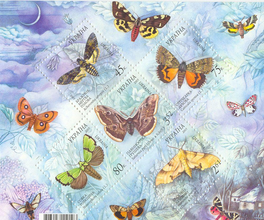 Stamp of Ukraine